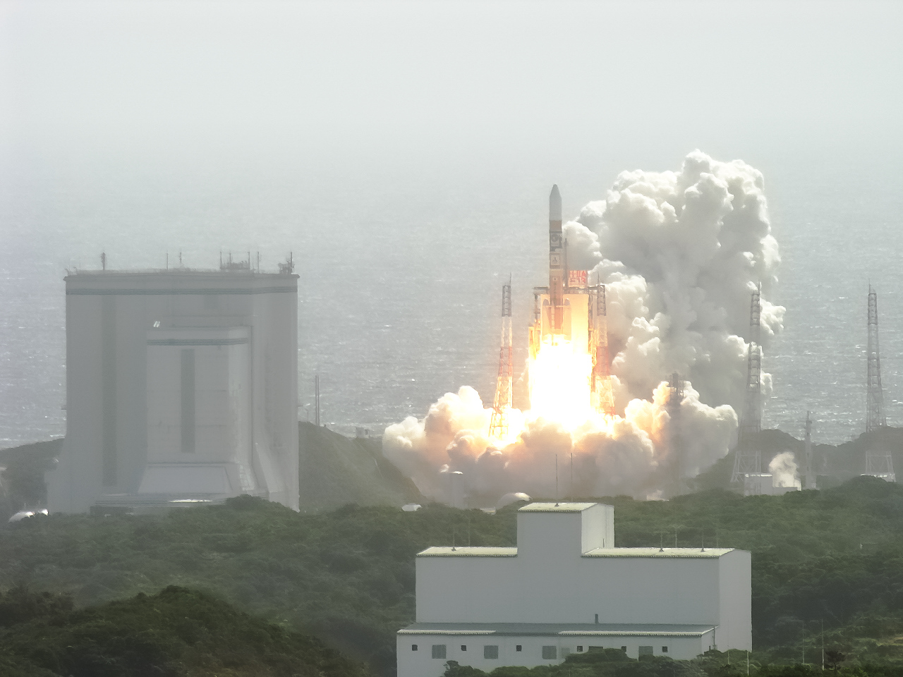 H-IIA Launch Vehicle Flight 13, launching lunar orbiter "KAGUYA" (SELENE:SELenological and ENgineering Explorer)